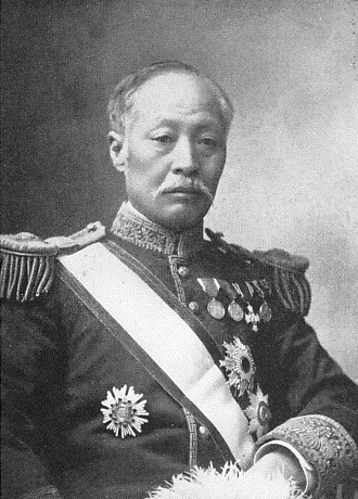 Yasukata Sonoda